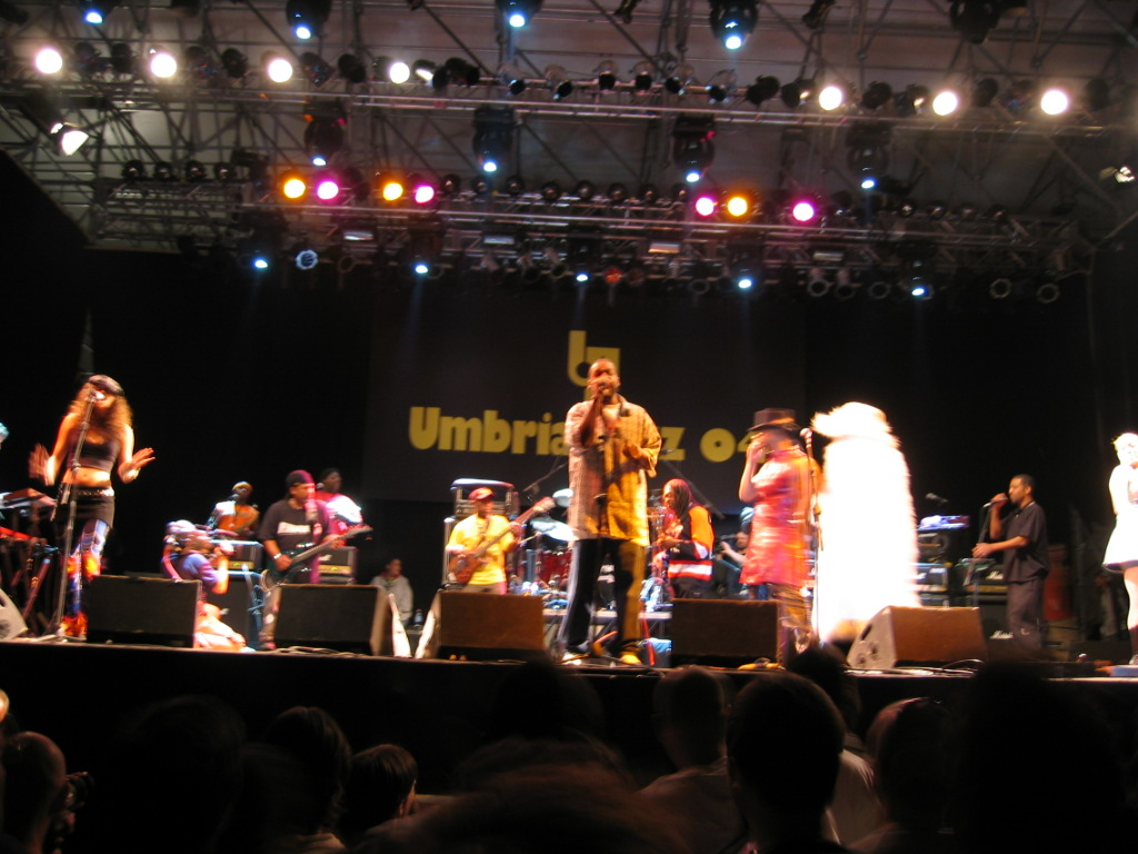 Funk music such as the type performed by groups like Parliament Funkadelic uses the electric bass and the drums to create a propulsive, emphatic rhythmic "feel" which is often referred to as a "groove".